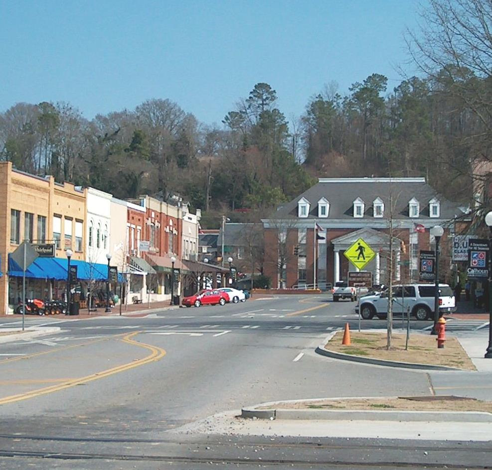 Downtown Calhoun, Georgia, Gordon County